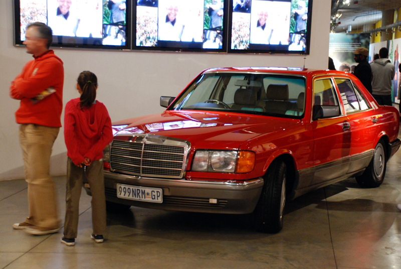 Le véhicule que les employers MERCEDES ont produit pour offrir à NELSON MANDELA à sa sortie de prison, devenu une pièce pour l’apartheid muséum à Johannesburg en Afrique du Sud.